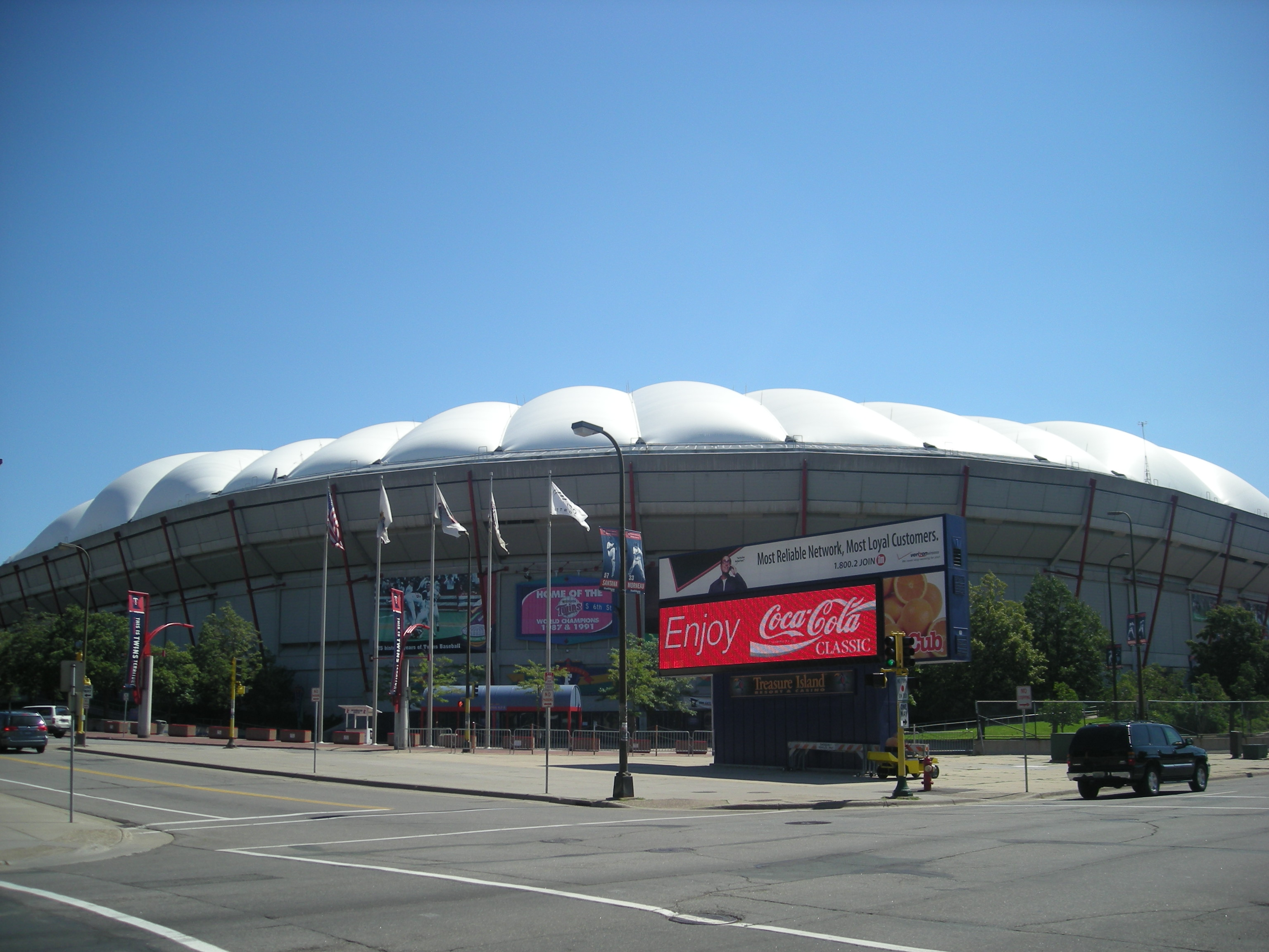 The Hubert H. Humphrey Metrodome in Minneapolis, Minnesota (United States).